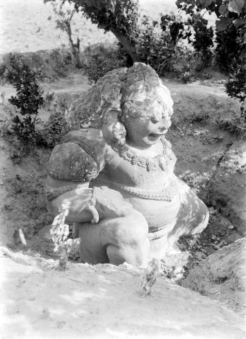 Hindu statue at Menang